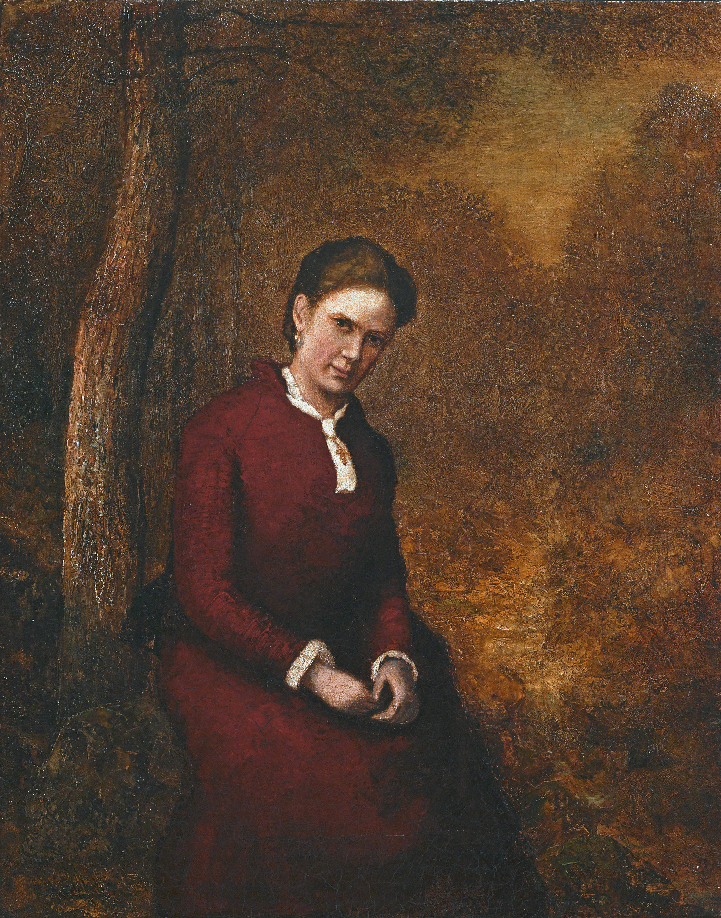 Cora Bailey (Mrs. Ralph Blakelock) oil on canvas signed b.l.: R.A. Blakelock 51,4 x 41,3 cm circa 1876